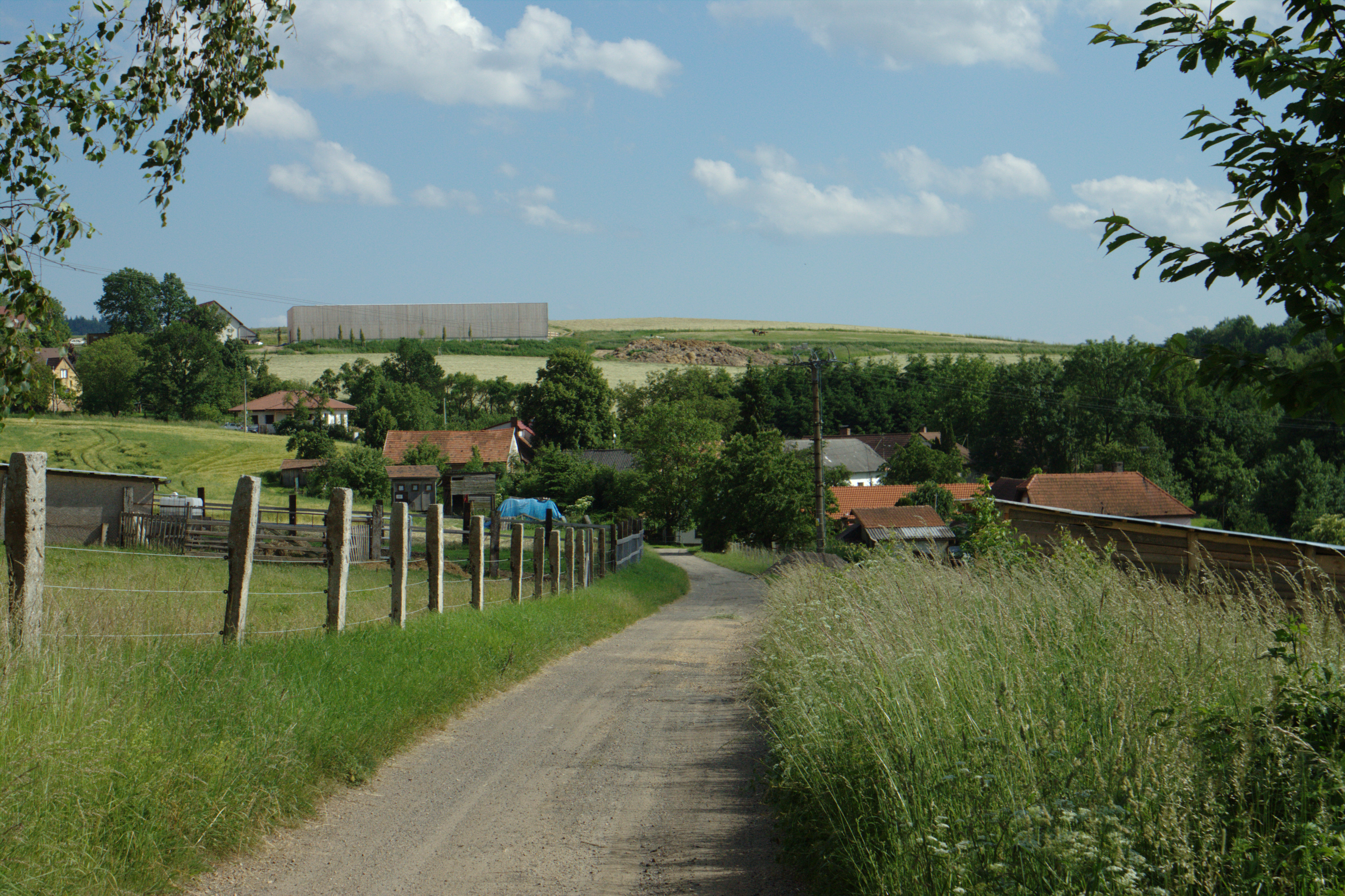 View of the village of Opřetice from north, Benešov District, CZ